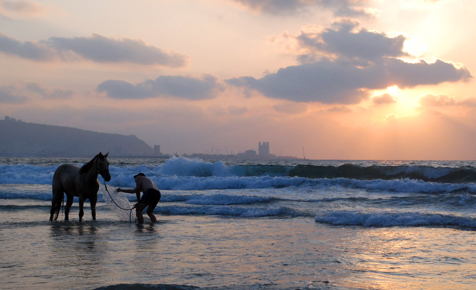 Geography of Israel